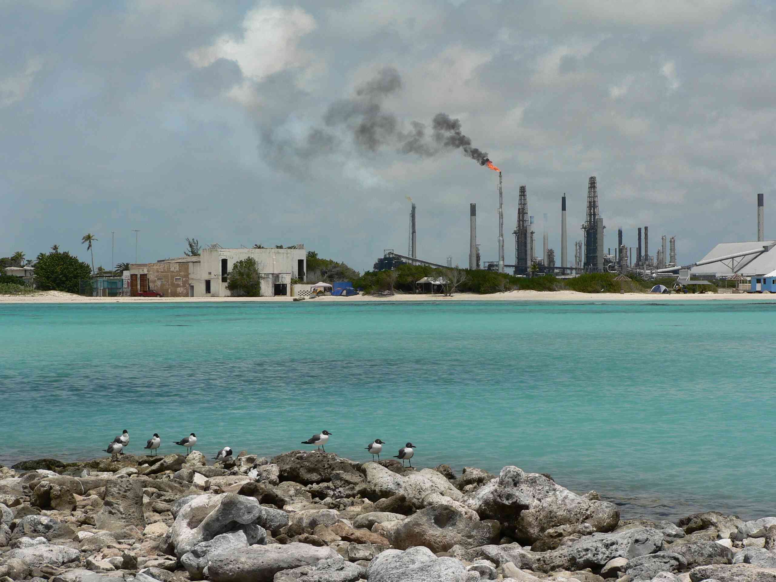 The Valero Oil Refinery at San Nicolas in southeast Aruba.